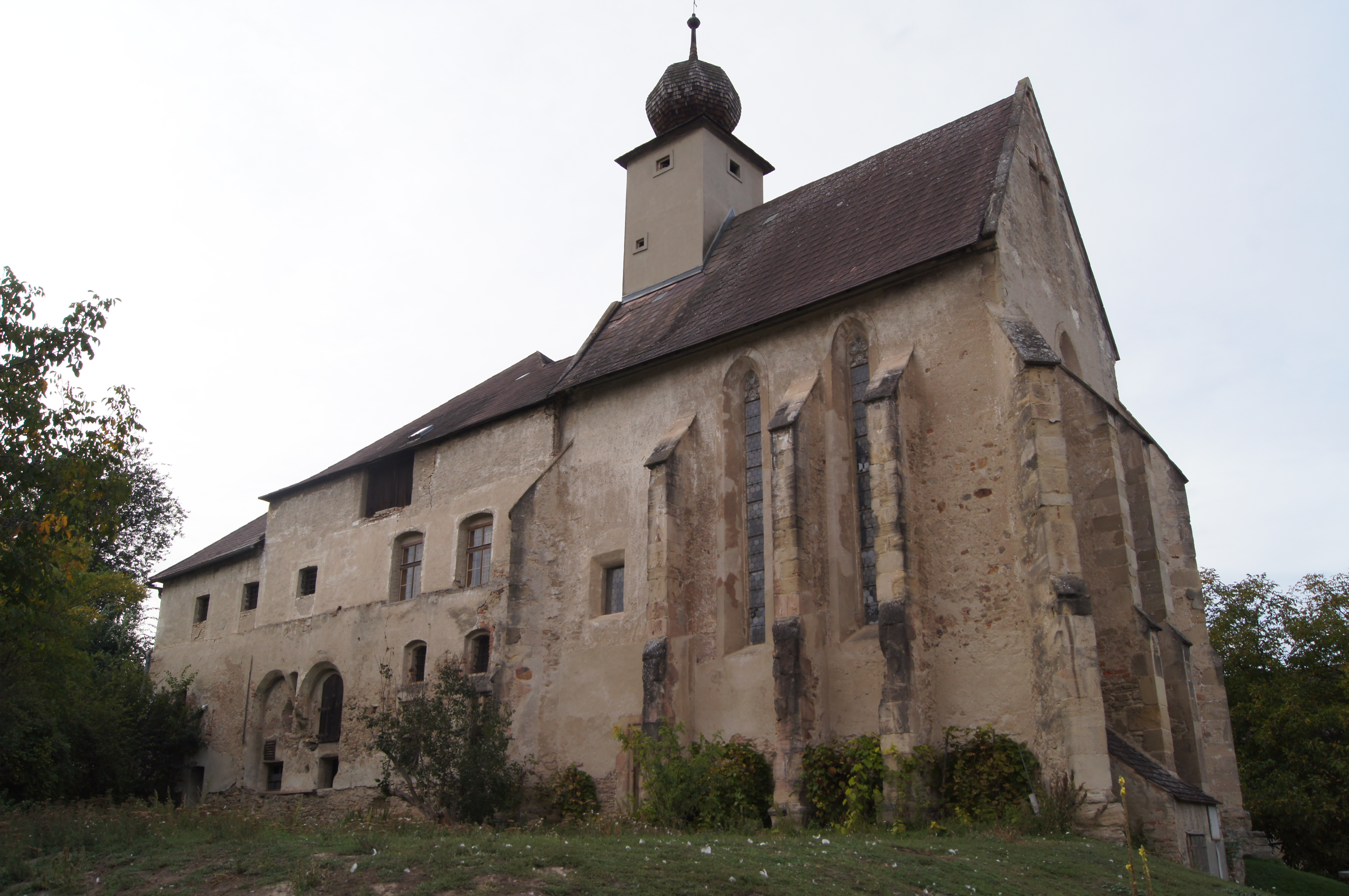 Kirchberg/Wagram - Schloss Oberstockstall und Alchemisten-Laboratorium Dieses Bild wurde anlässlich des österreichischen Tags des Denkmals 2012 in Niederösterreich eingereicht.